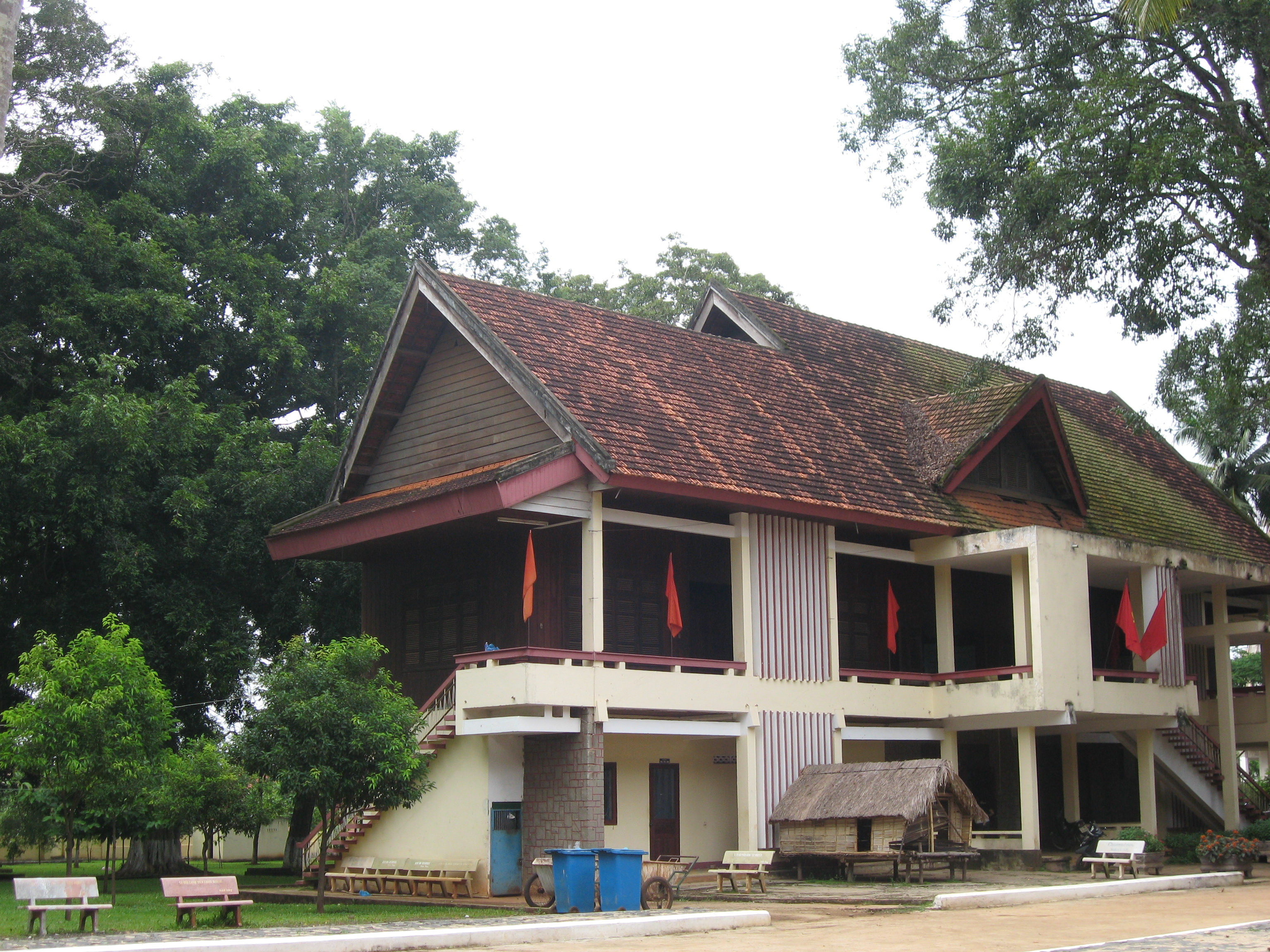 Dak Lak Ethnology Museum